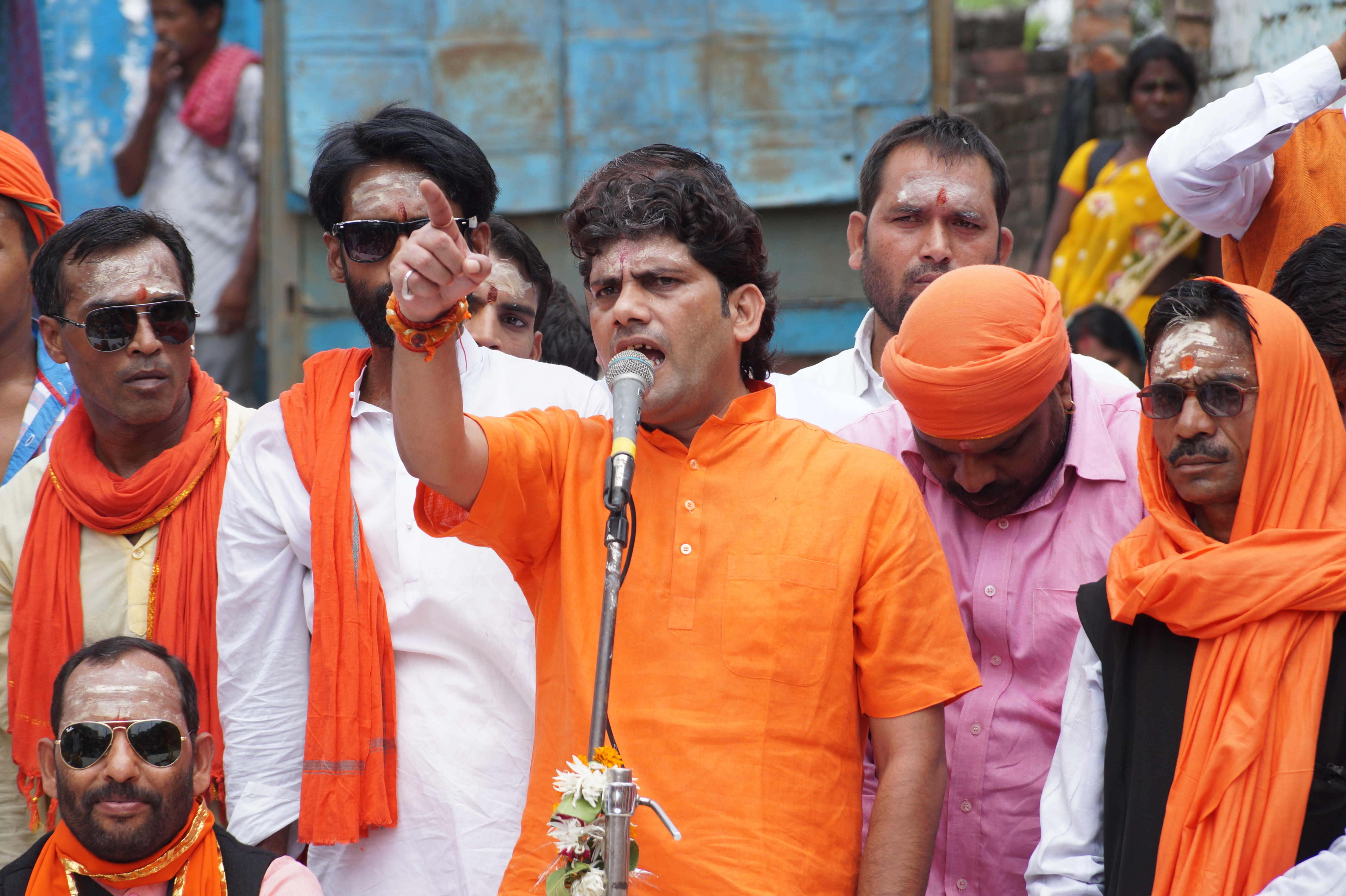 Voice of Hindutva